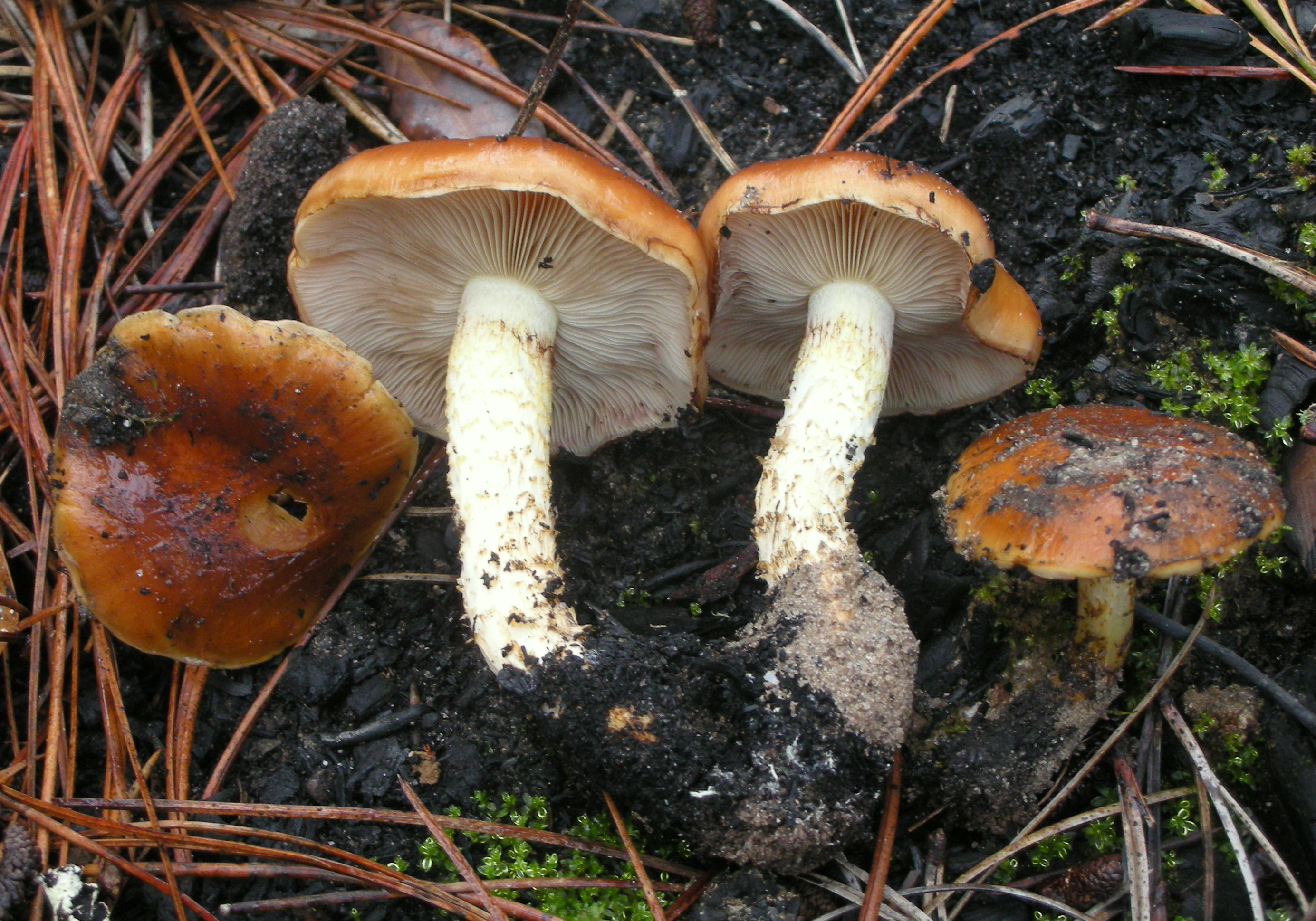 Fruitbodies of the agaric fungus Pholiota brunnescens A.H. Sm. & Hesler. Specimens photographed in Henry Cowell Redwoods State Park, Santa Cruz, California, USA